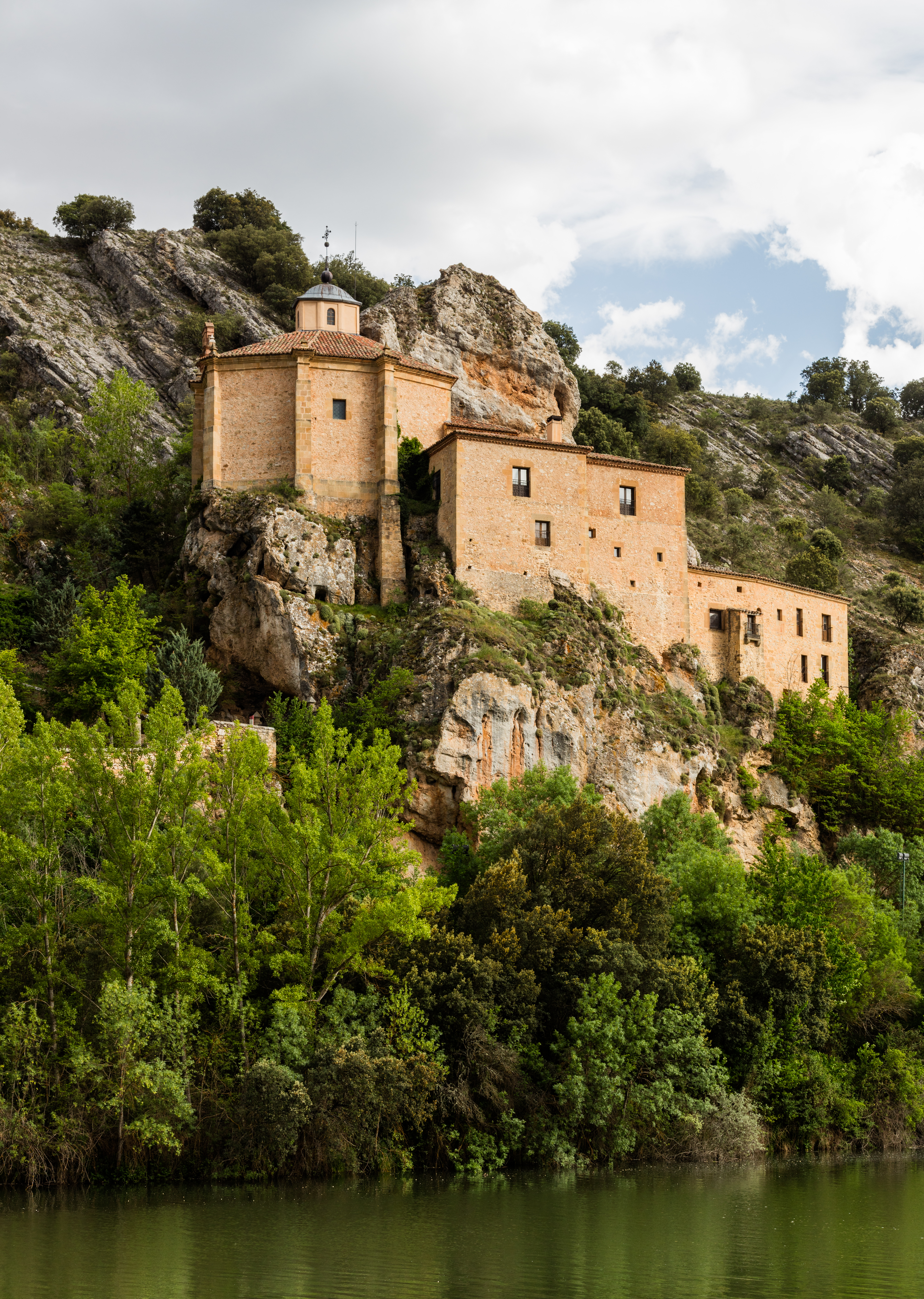 Hermitage of St Saturio, Soria, Spain